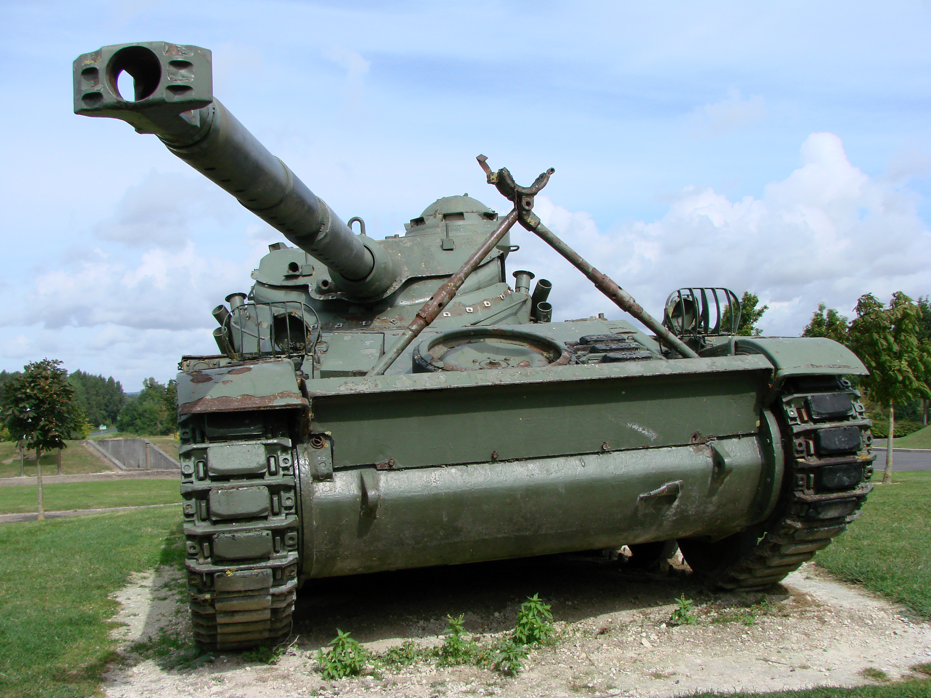 AMX-13.